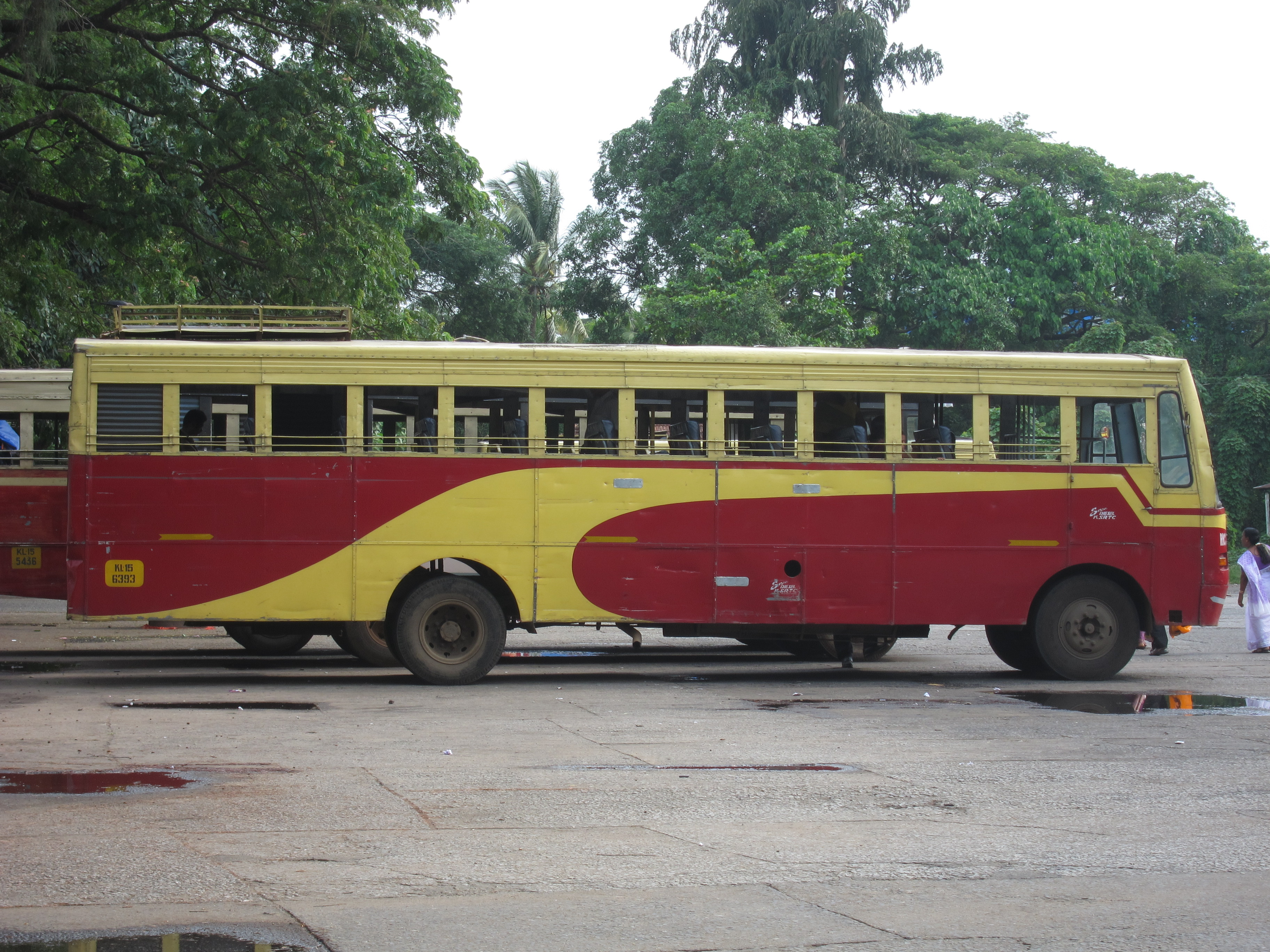 K.S.R.T.C Bus - ബസ്